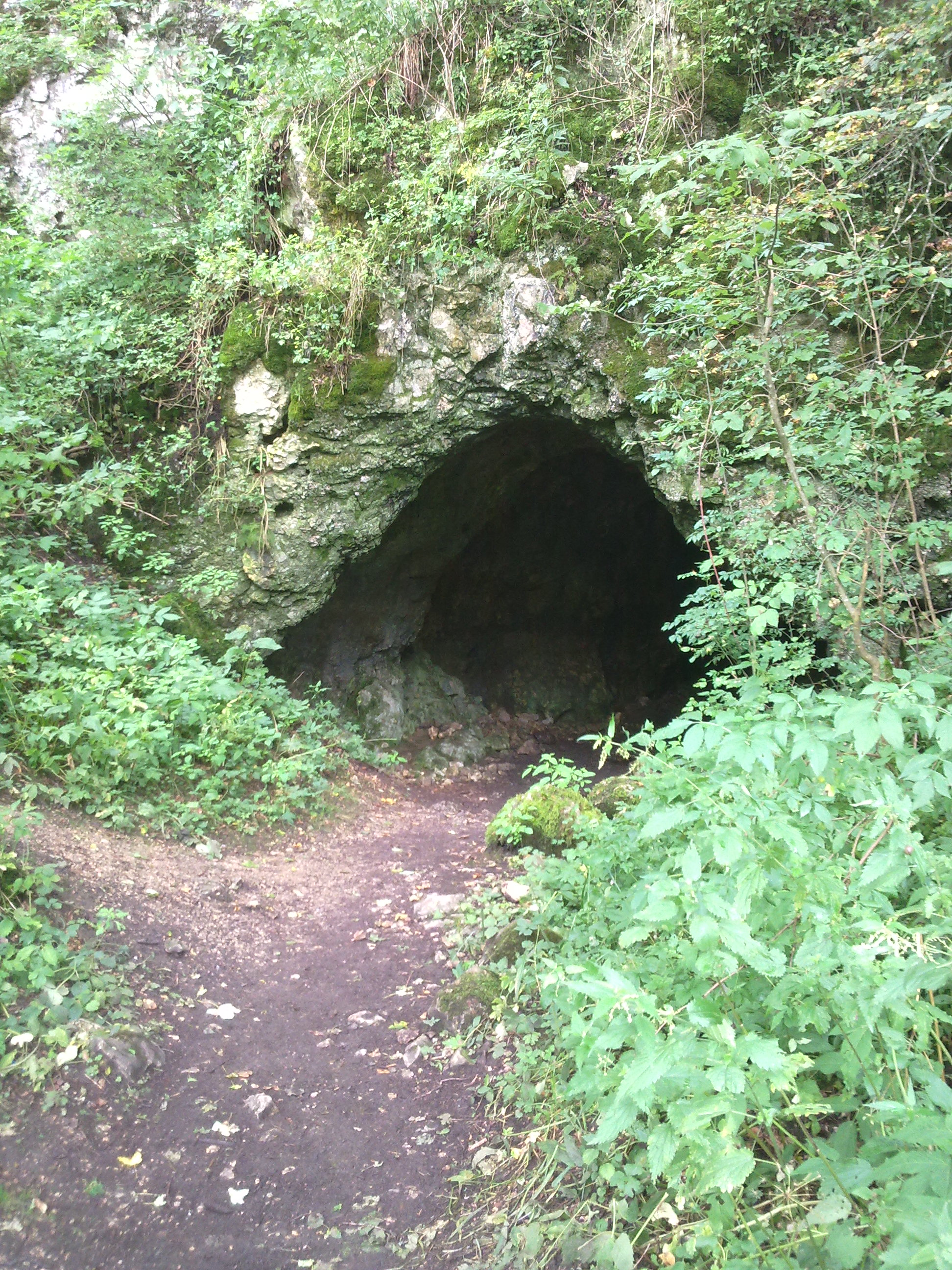 Cave "Bärenhöhle" at the "Hohlenstein" in southern "Lonetal". (For image of the nearby "Stadel" see File:Hohlenstein-Stadel.jpg)